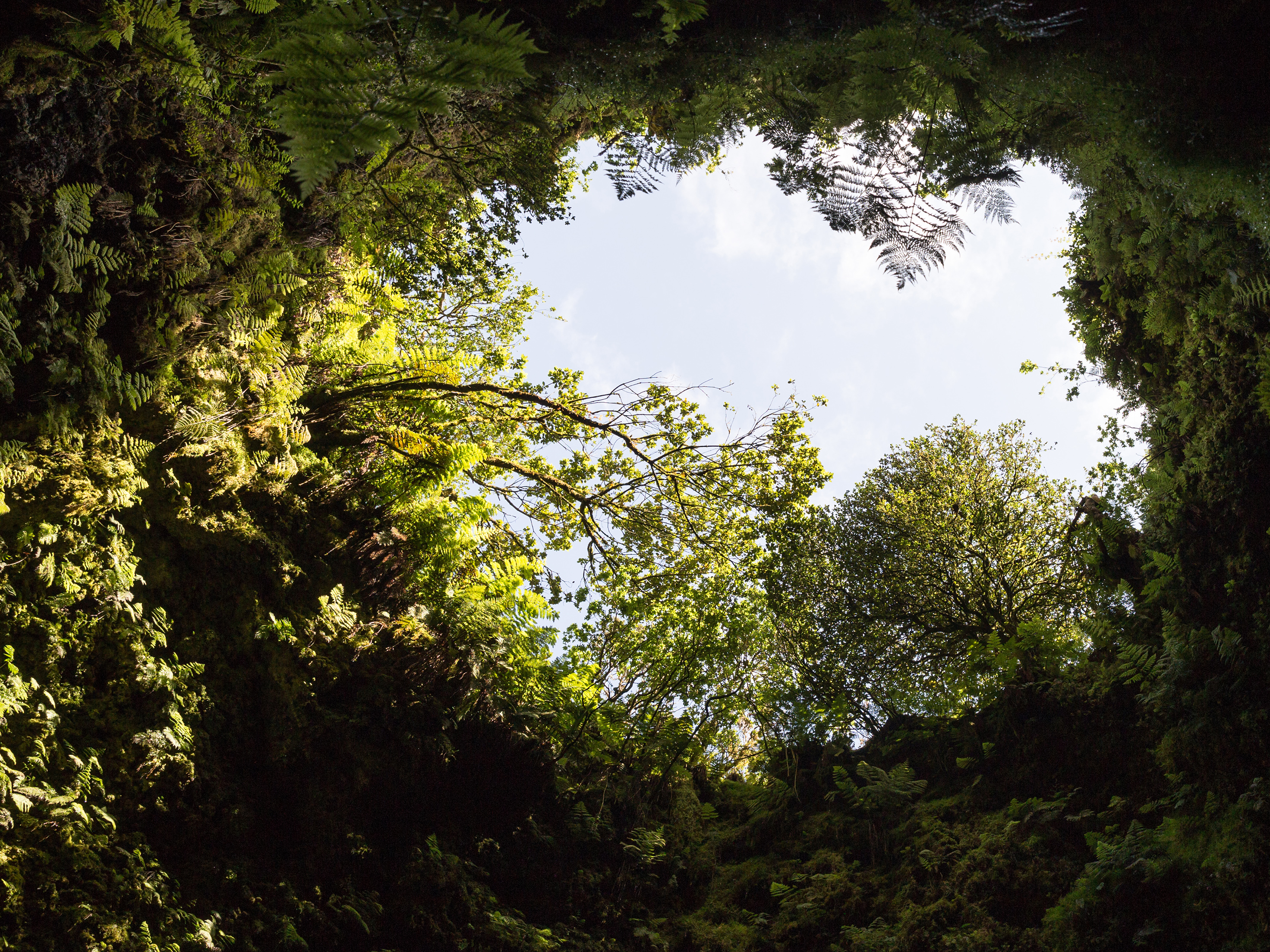 Algar do Carvão, volcanic vent on Terceira Island (Azores)